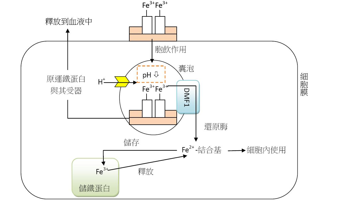 Fe_transport_mechanism